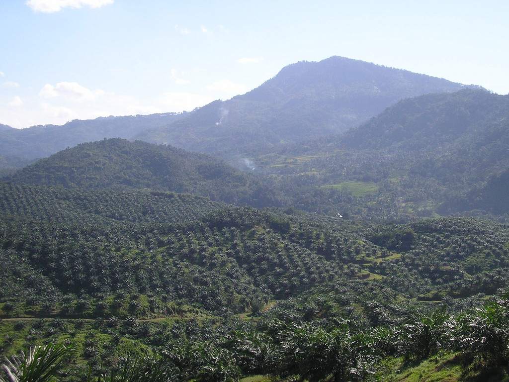 View of palm oil plantation in Cigudeg, Bogor